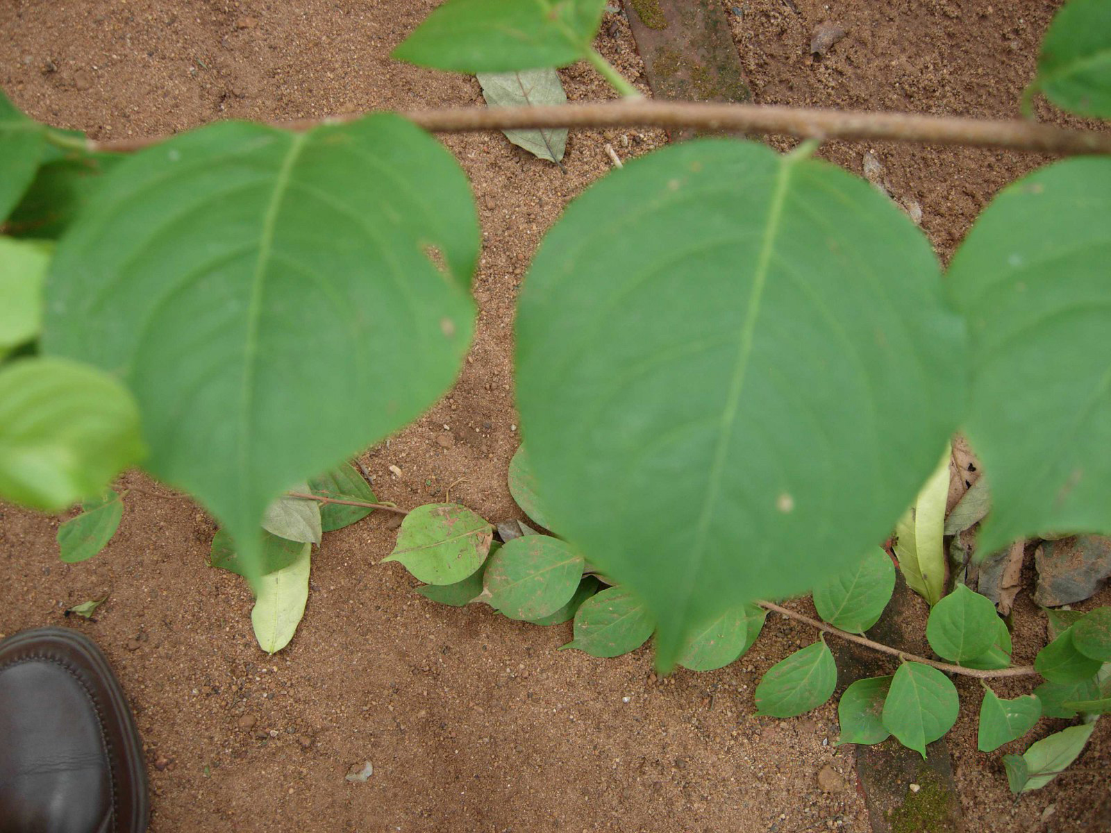 Celastrus paniculatus